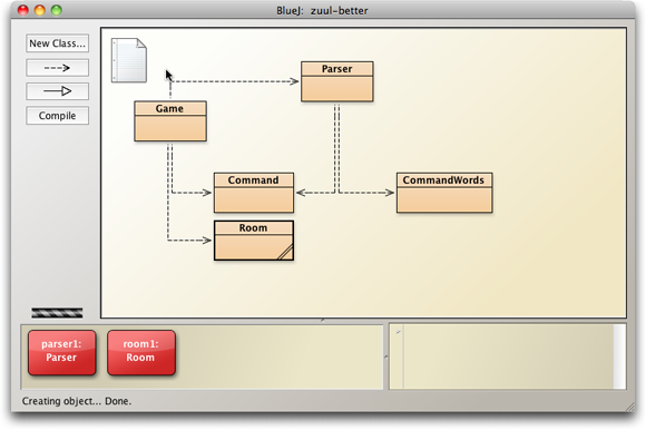 Screenshot of BlueJ